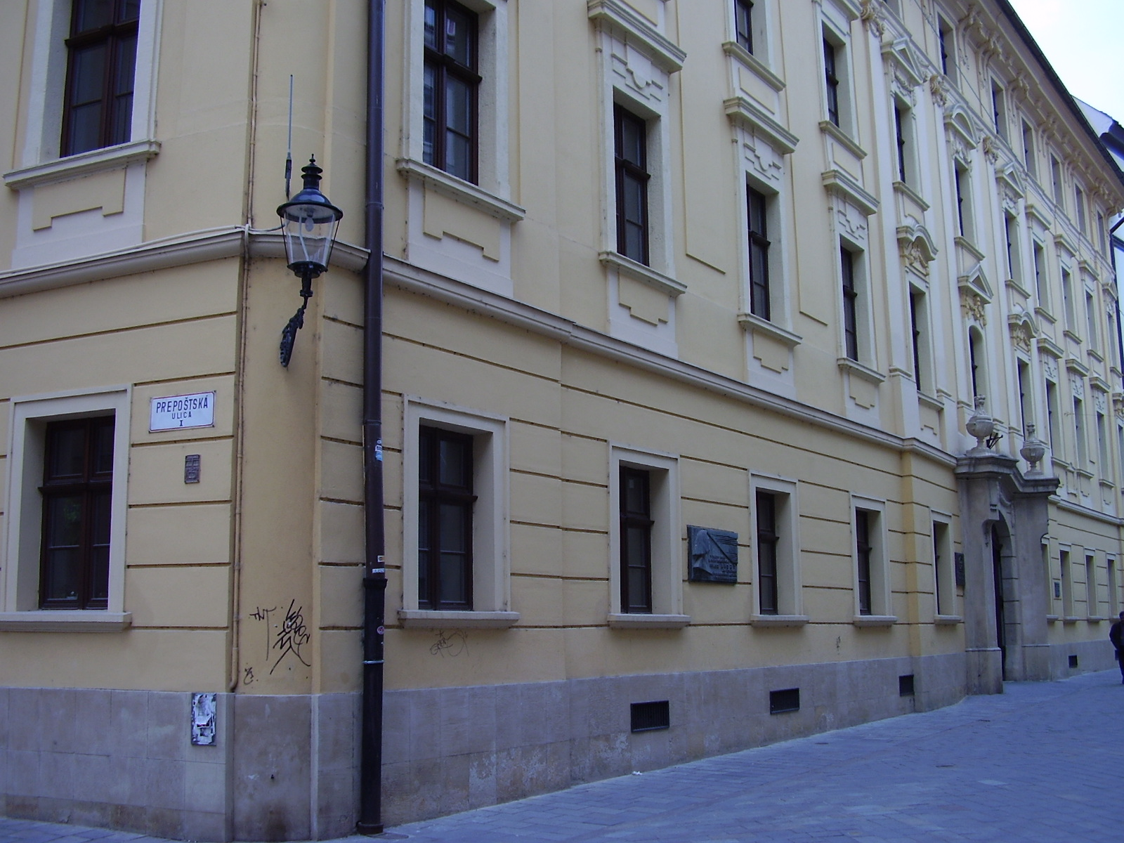 Bratislava city centre